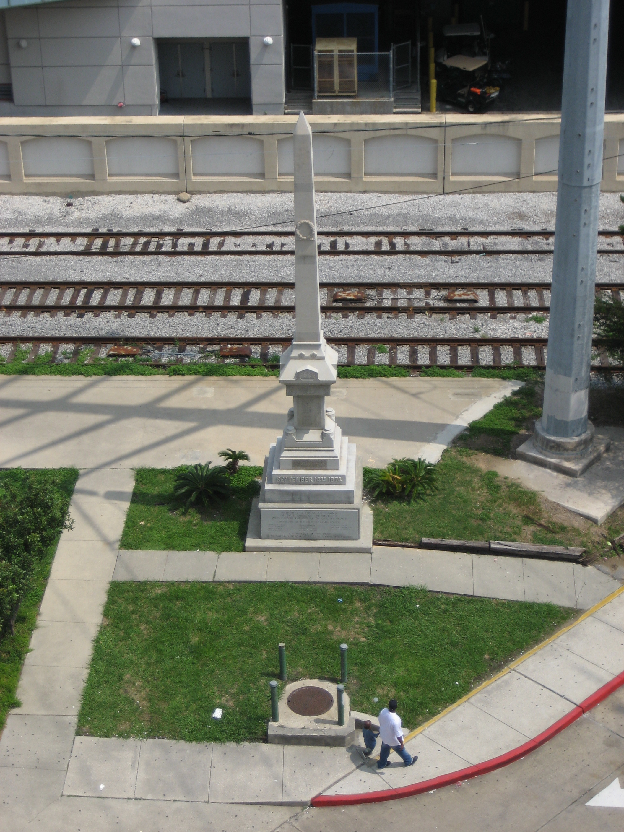 New Orleans: 19th century "White Leage" monument, first erected in 1891 commemorating a victory in a battle/riot by "White" supremist group over integrated Reconstruction government in 1874. Formerly on Canal Street. In mid 20th century a plaque was added noting the racist notions commemorated by the monument were no longer supported by the city, and in the late 20th century the monument was moved to this less conspicuous location, in back of Canal Place building. The monument has been a frequent target of vandalism and there have been repeated calls for it to be dismantled or moved to a museum. Photo by Infrogmation, from Canal Place parking garage.